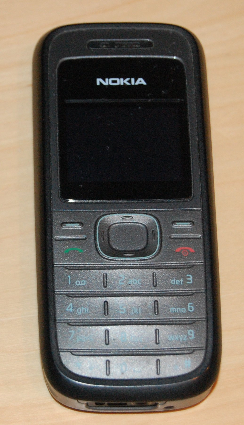 Picture of a Nokia 1208 mobile phone.